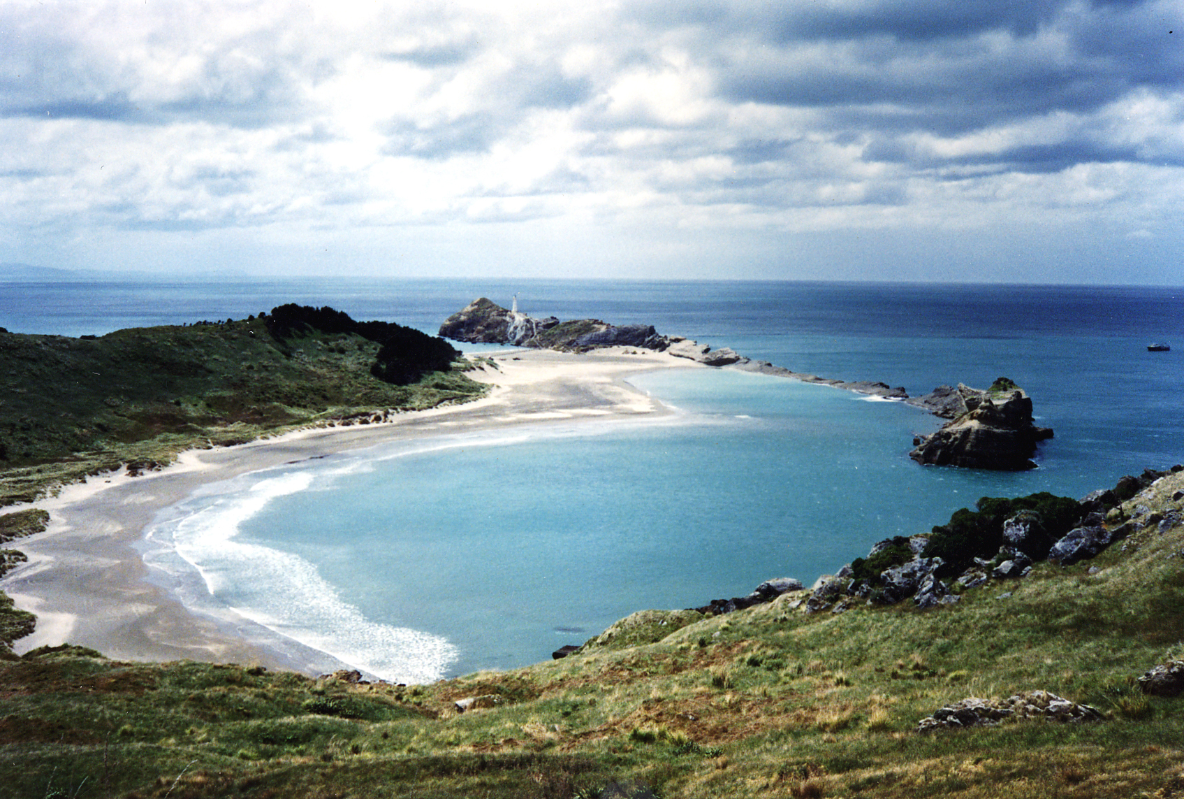 Crowded once a year on the day that they hold a beach horse racing meet. Come here on any week day outside January and more than 10 people on this beach counts as overcrowding.